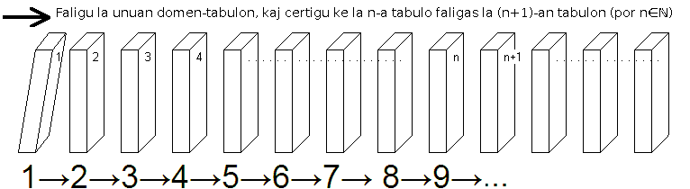 Mathematical induction as domino effect, with text in Esperanto